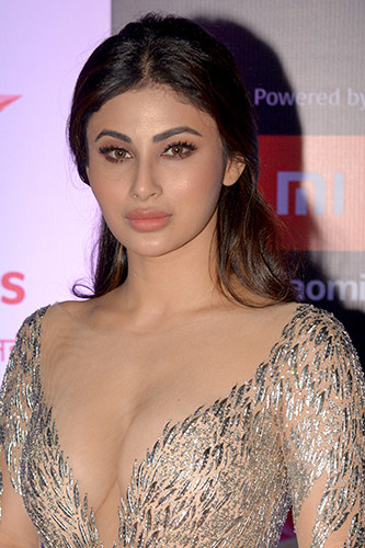 Mouni Roy graces the Star Screen Awards 2018